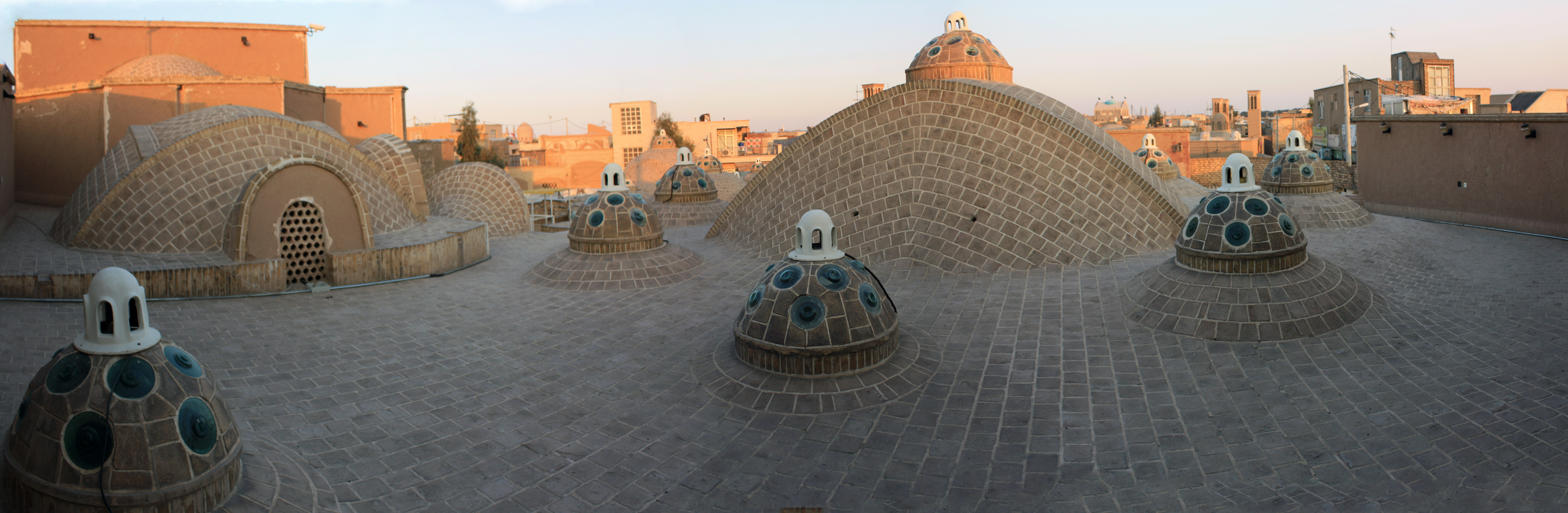 Roof of Soltan Amir Ahmad Bath House, Kashan, Iran